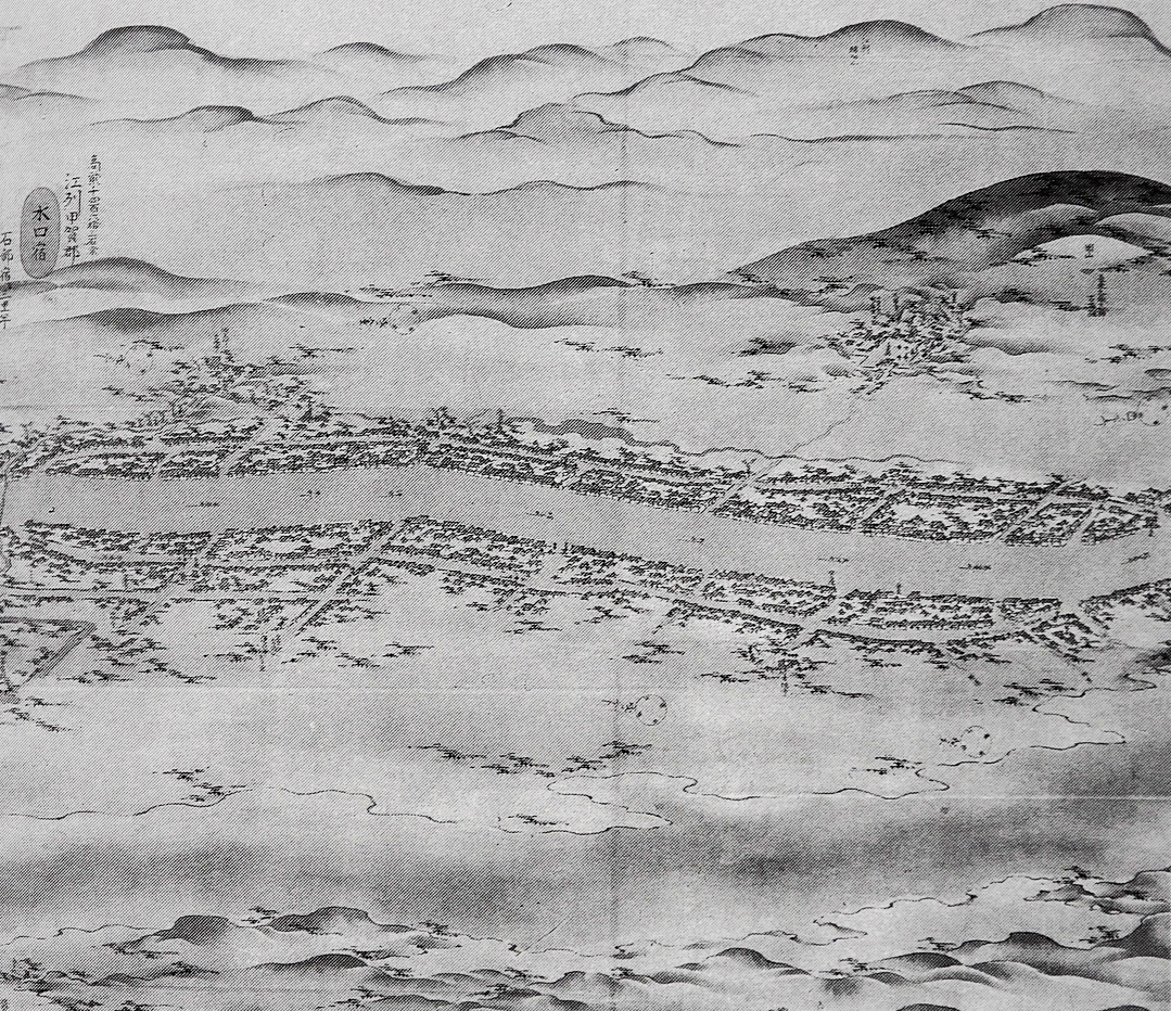 Minakuchi-juku in Minakuchi from Tokaido-bunken-ezu in 1806